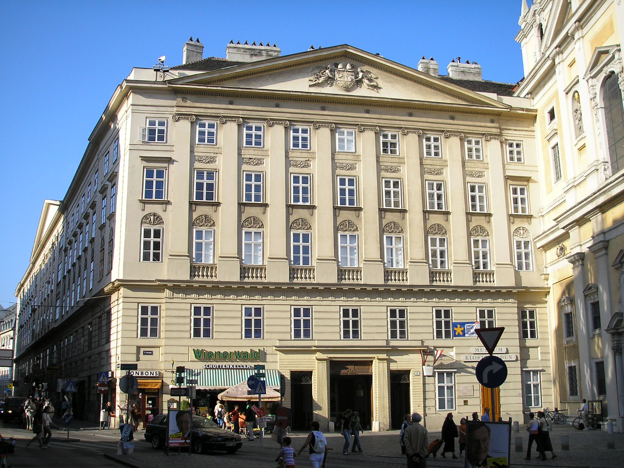 View of the Schottenstift in Vienna's first district Innere Stadt.